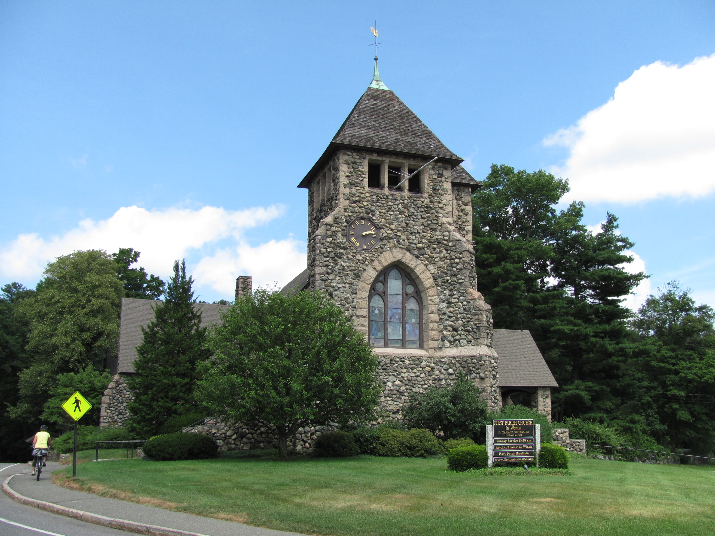 First Parish Church (1888), Weston Massachusetts - Robert Swain Peabody, architect